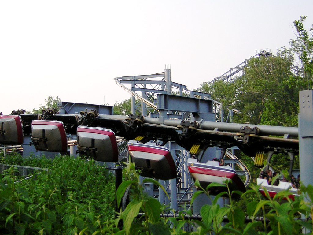 Flight Deck (formely Top Gun) roller coaster at Paramount's Kings Island.